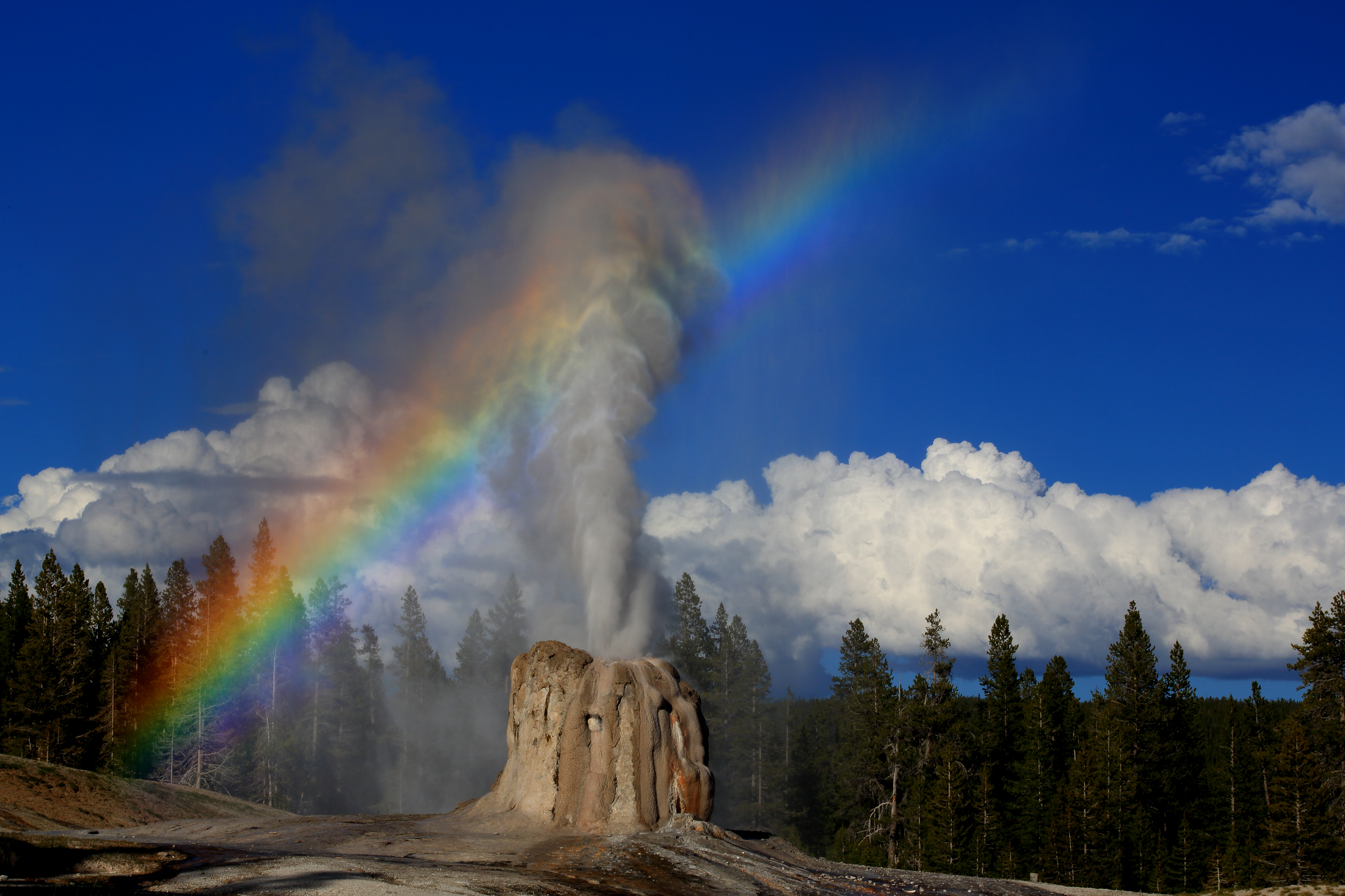 Lone Star Geyser 2016, Roy Marino photo credit